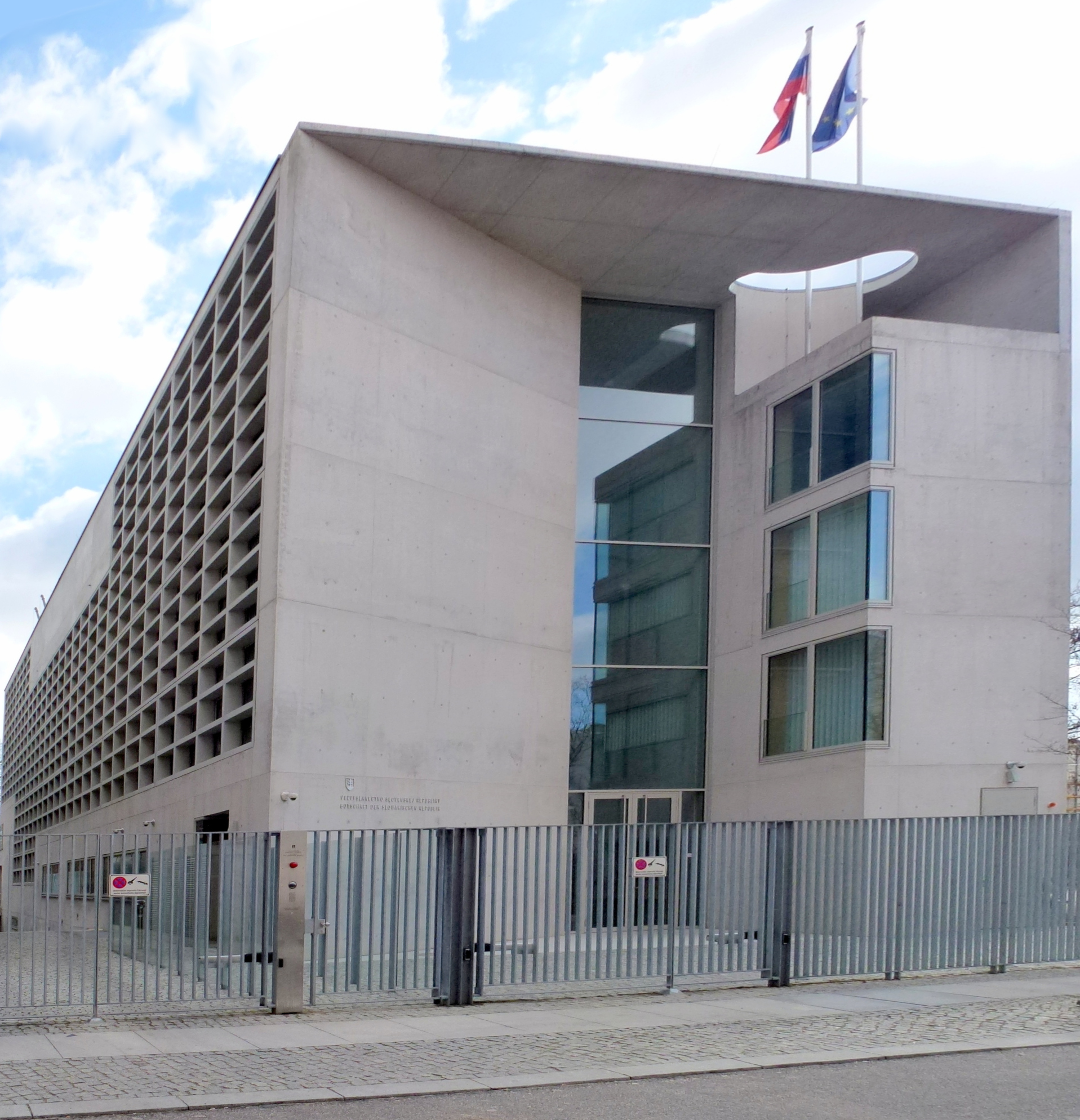 Embassy of Slovakia, Tiergarten, Berlin.